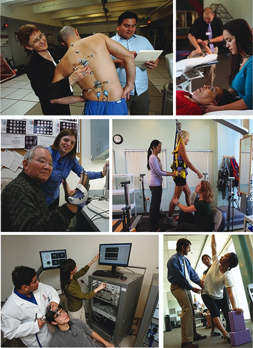 A series of images that represent the research and practice in the field of kinesiology. Clockwise from upper left. Spine motion capture (photo credit: Phil Channing). Manipulation and joint mobilization (photo credit: John Skalicky) Assisted gait training with partial weight support (photo credit: Phil Channing). Assisted stretching and balance practice (photo credit: John Skalicky). Transcranial magnetic stimulation (photo credit: Phil Channing). Hand configuration monitoring and movement practice (photo credit: Phil Channing).